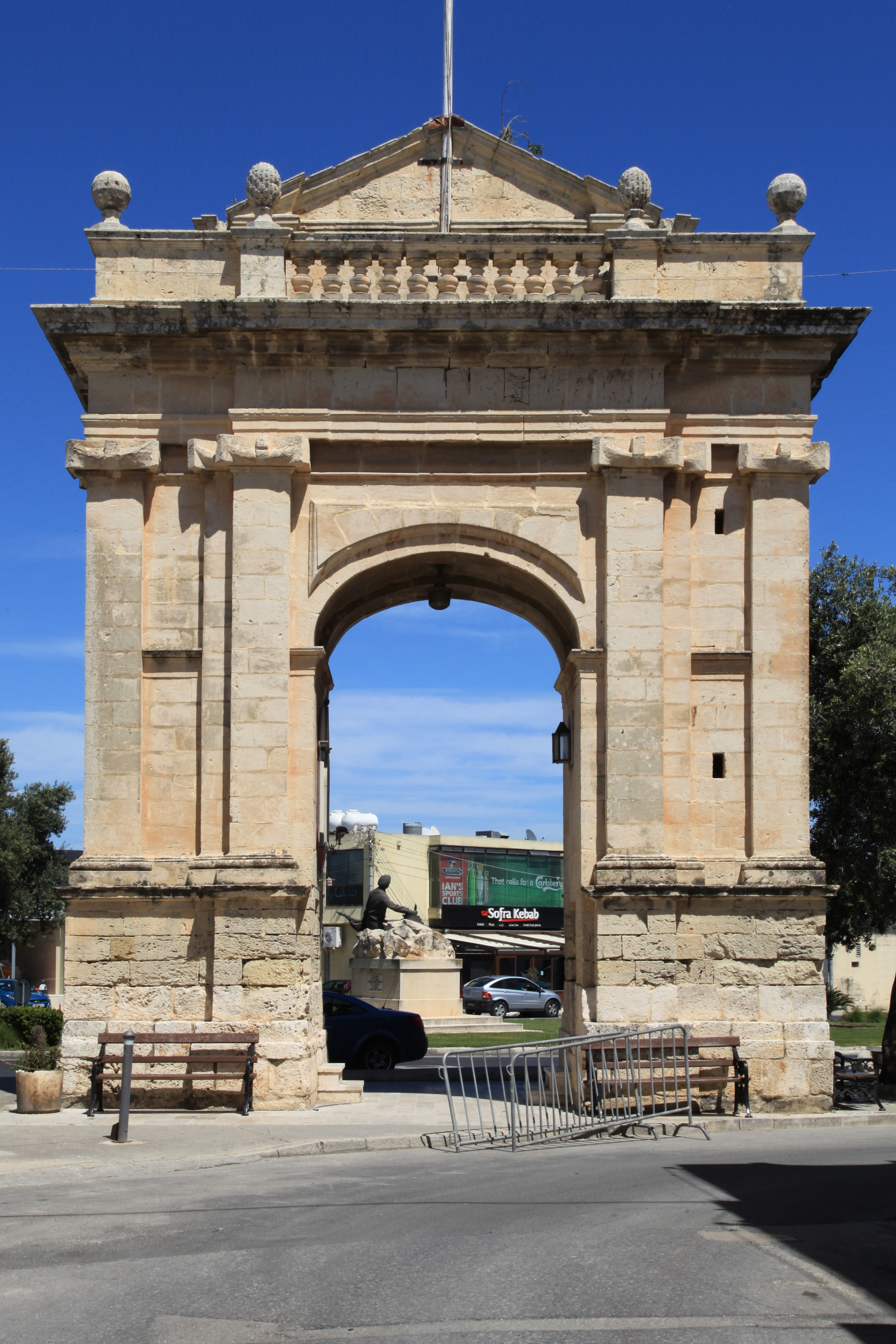 De Rohan Arch at Triq il-Kbira in Żebbuġ, Malta